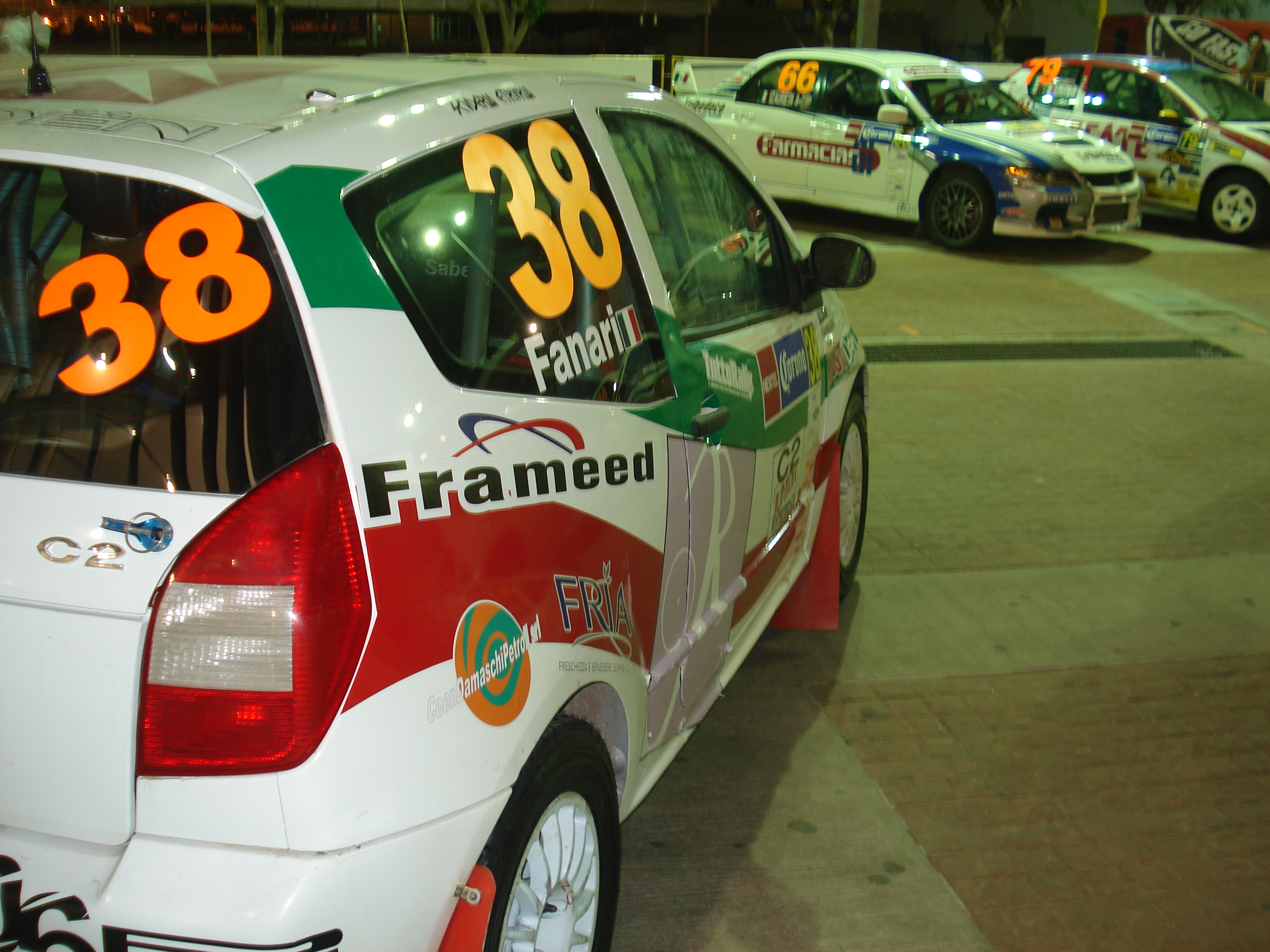 Francesco Fanari's Citroën C2 R2 parked in the parc ferme on day one of the 2008 Rally Mexico at rally base in the Poliforum in Leon, Mexico.